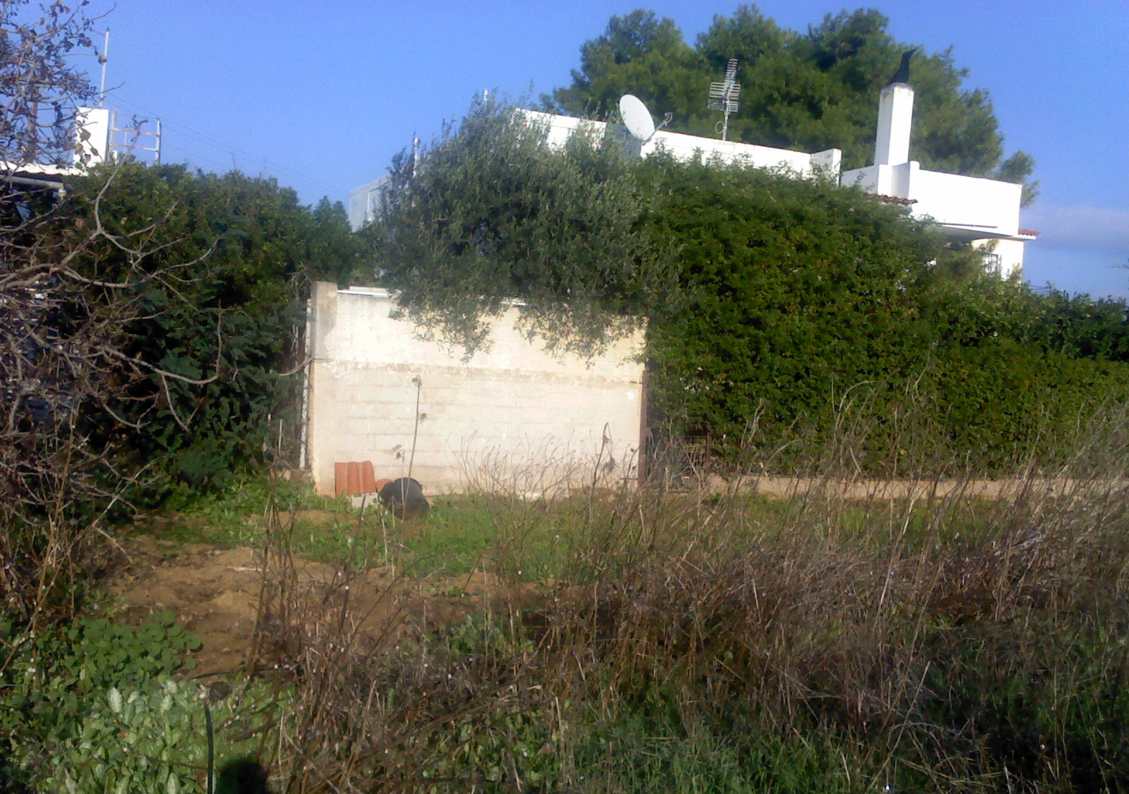 Well Alikou Koropi